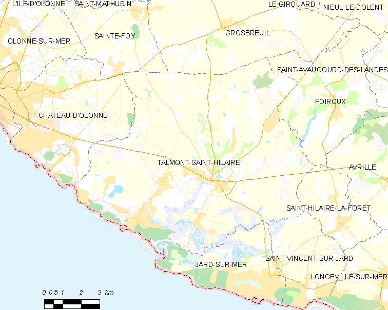 Map of French municipality Talmont-Saint-Hilaire